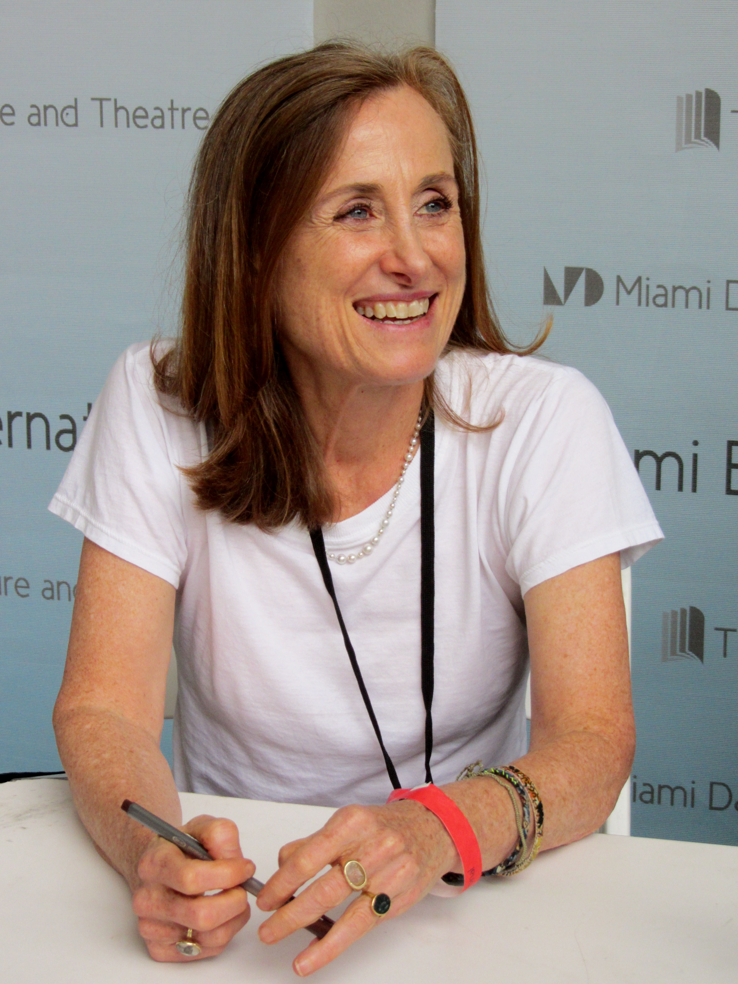 American author Mona Simpson at the Miami Book Fair International 2014